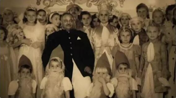 Image was taken in 1943, by kings cameraman during Christmas that year, The image was taken in Jamnagar